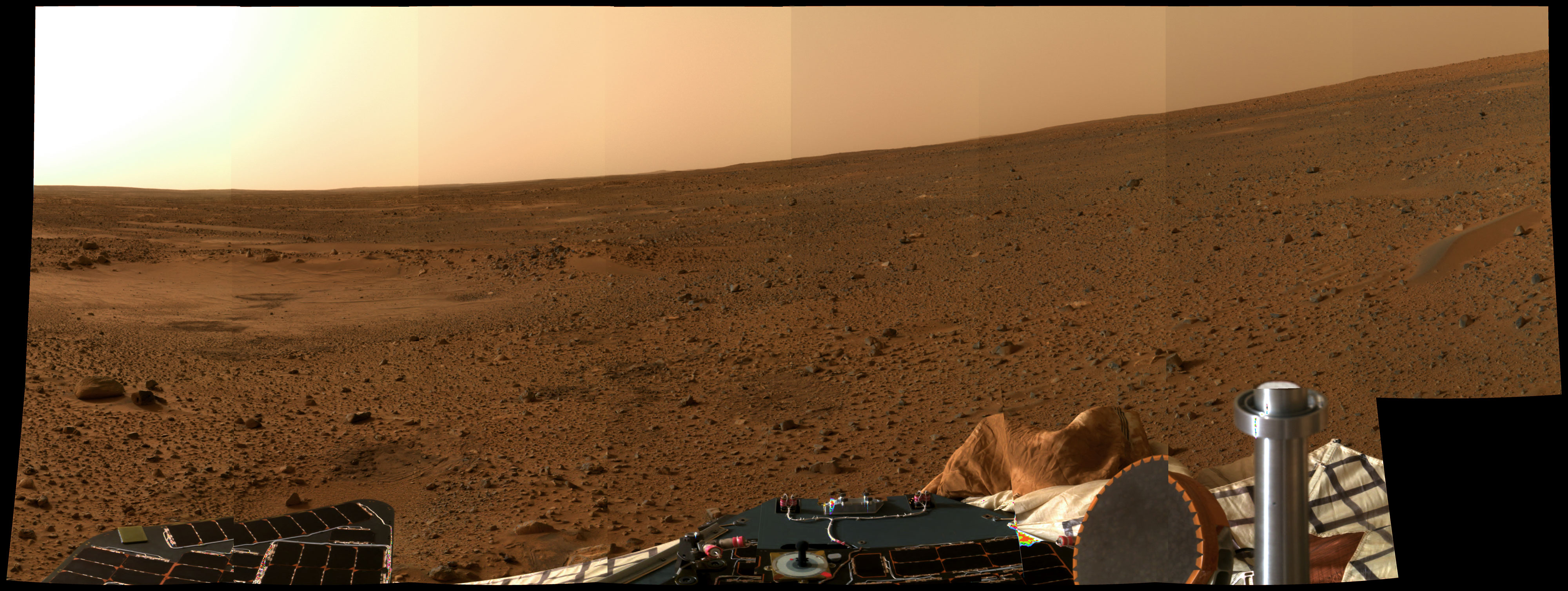 Martian Surface at an Angle This latest color "postcard from Mars," taken on Sol 5 by the panoramic camera on the Mars Exploration Rover Spirit, looks to the north. The apparent slope of the horizon is due to the several-degree tilt of the lander deck. On the left, the circular topographic feature dubbed Sleepy Hollow can be seen along with dark markings that may be surface disturbances caused by the airbag-encased lander as it bounced and rolled to rest. A dust-coated airbag is prominent in the foreground, and a dune-like object that has piqued the interest of the science team with its dark, possibly armored top coating, can be seen on the right.